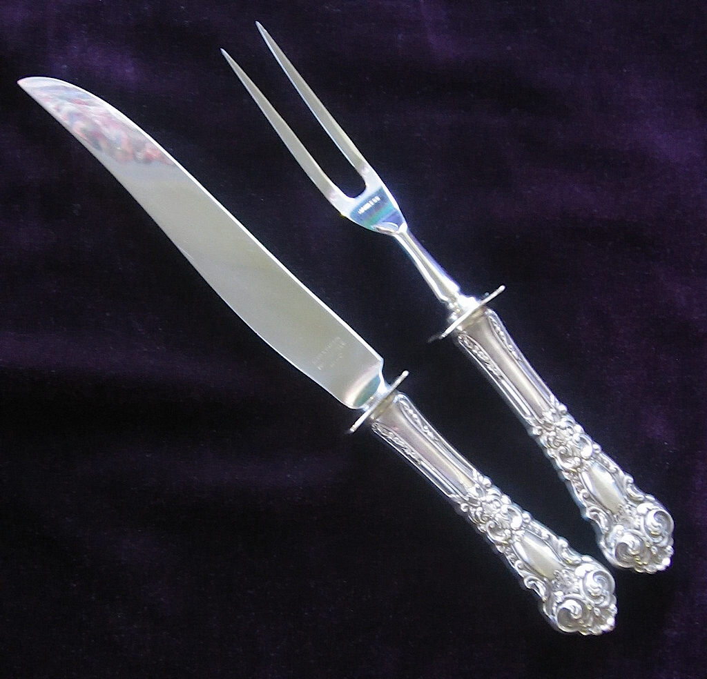 Sterling-silver Carving Set of US-American manufacturer Reed & Barton.